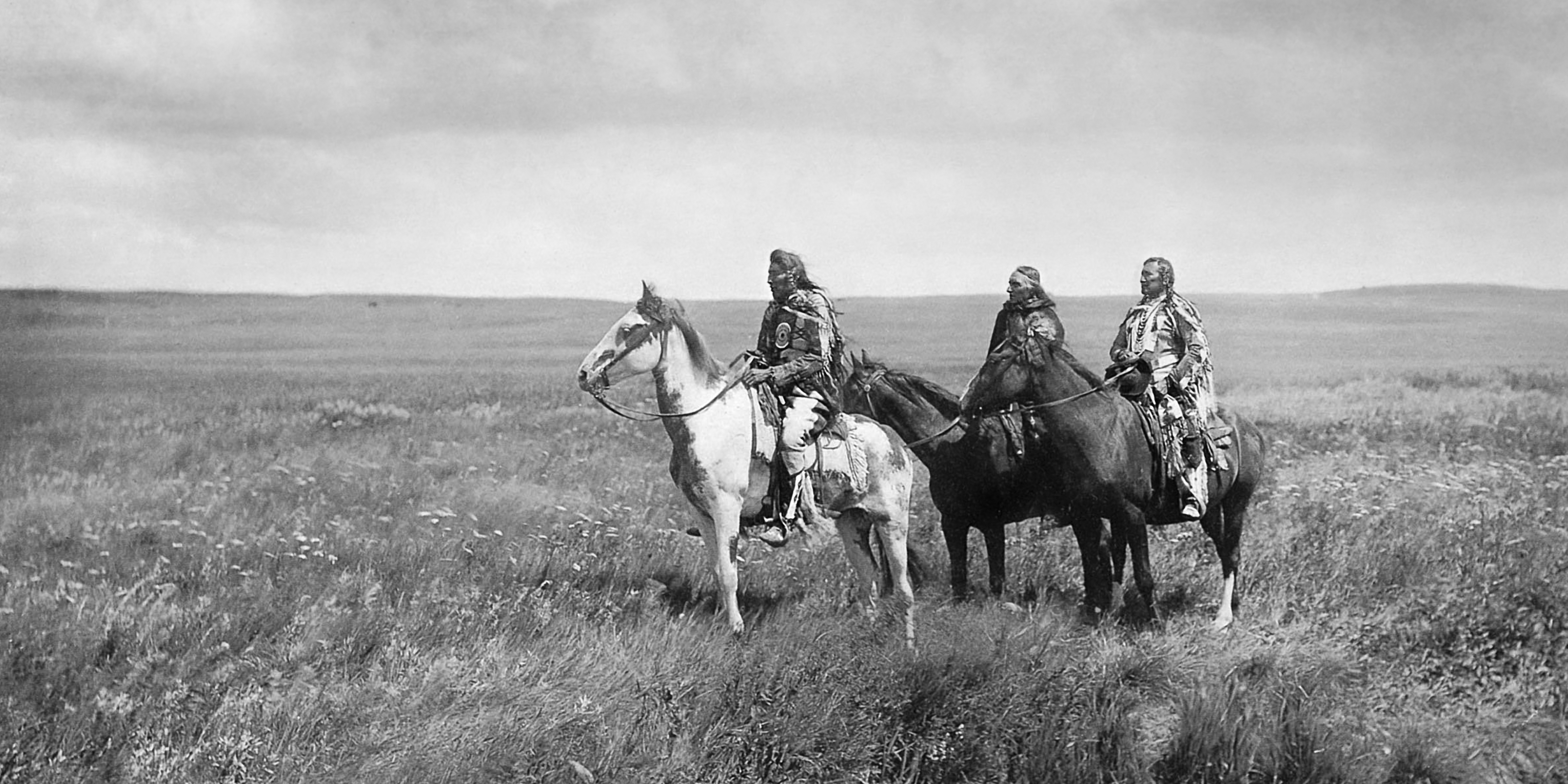 See the original image